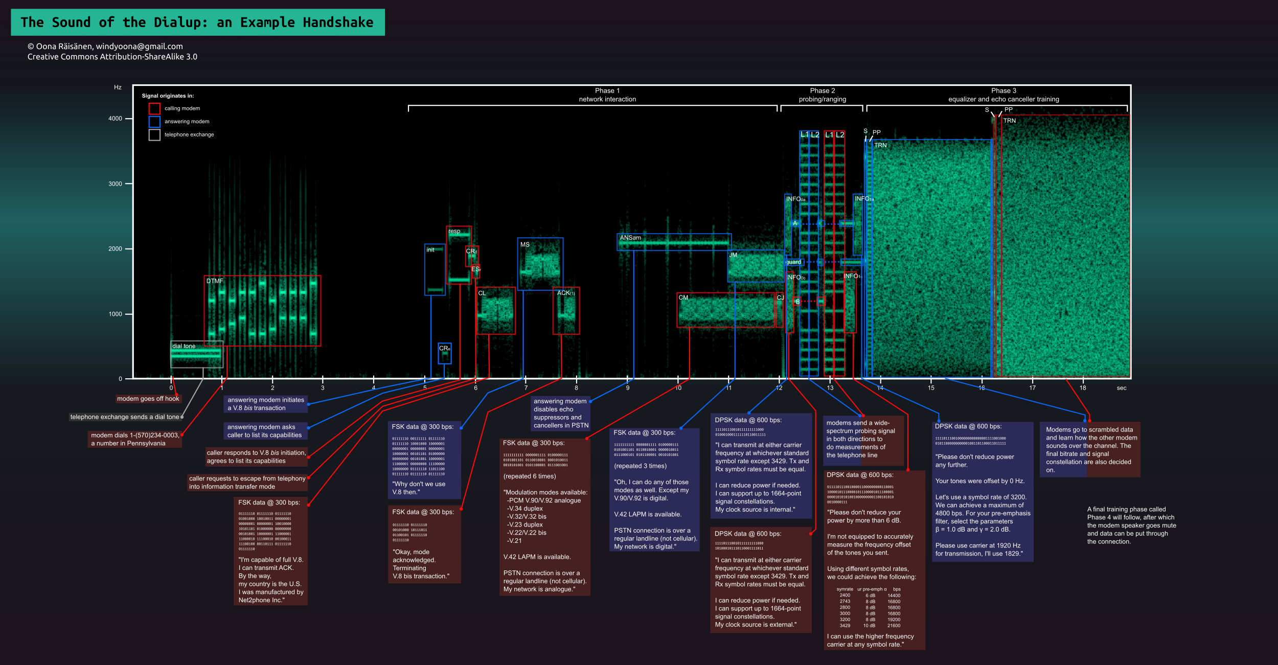 A spectrogram of a typical modem handshake (File:Dial up modem noises.ogg), including labels for some signals detailing which party sent them and what they contain.